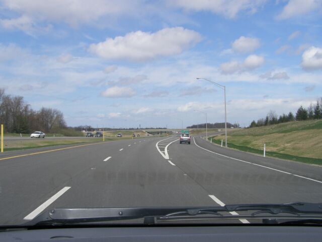 Indiana Route 49, southbound, approaching U.S. 6 in Porter County